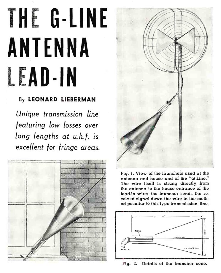 First page of an article on the use of a Goubau line as a feedline (transmission line) for a UHF television antenna. The Goubau line, invented by G. Goubau in 1950, is an unusual type of radio transmission line used to conduct radio waves at UHF and microwave frequencies, consisting of a single insulated wire. At the ends, metal cones serve as a "launcher" to send the waves along the wire and "catcher" to receive the waves at the destination end into a coaxial cable. It has lower attenuation (power losses) per meter than more common transmission line such as coaxial cable or twin lead. Alterations to image: Cropped out the text of the article, leaving the illustrations and captions, and rotated image by a few degrees to justify.